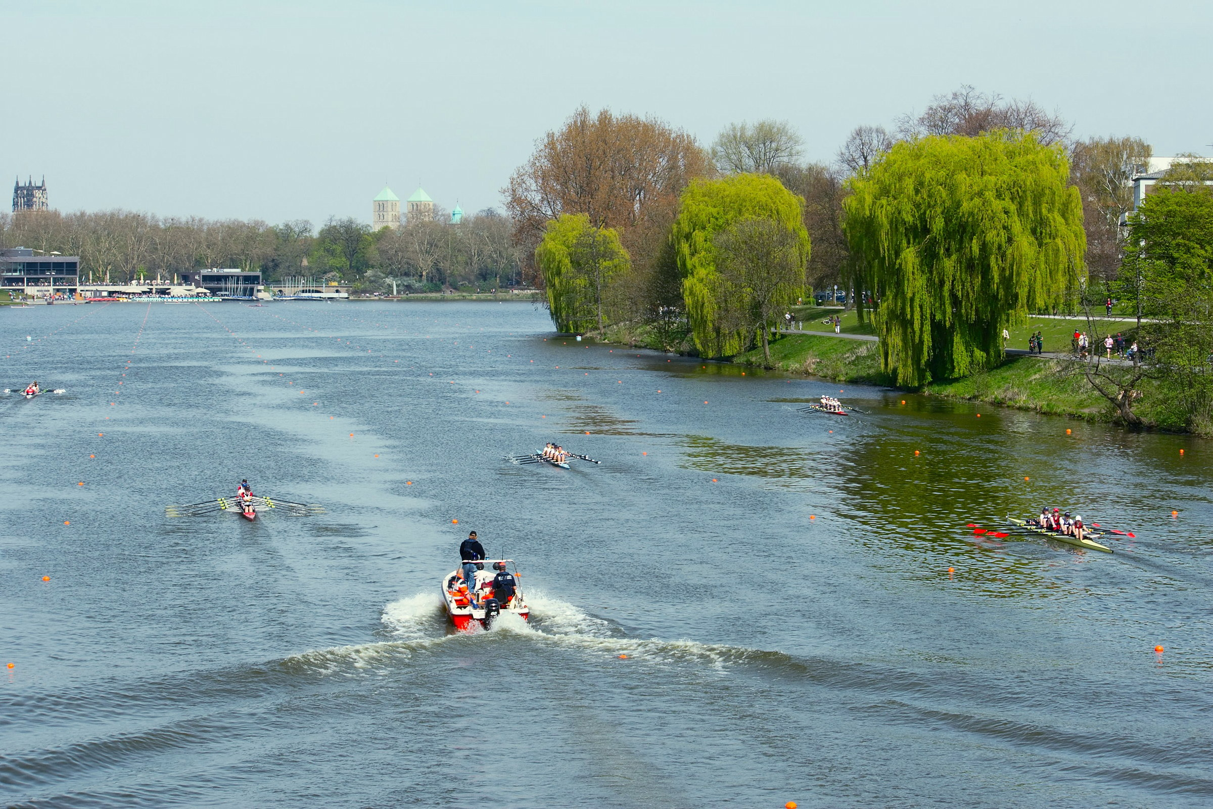 Boat racing on the Aasee in Münster.